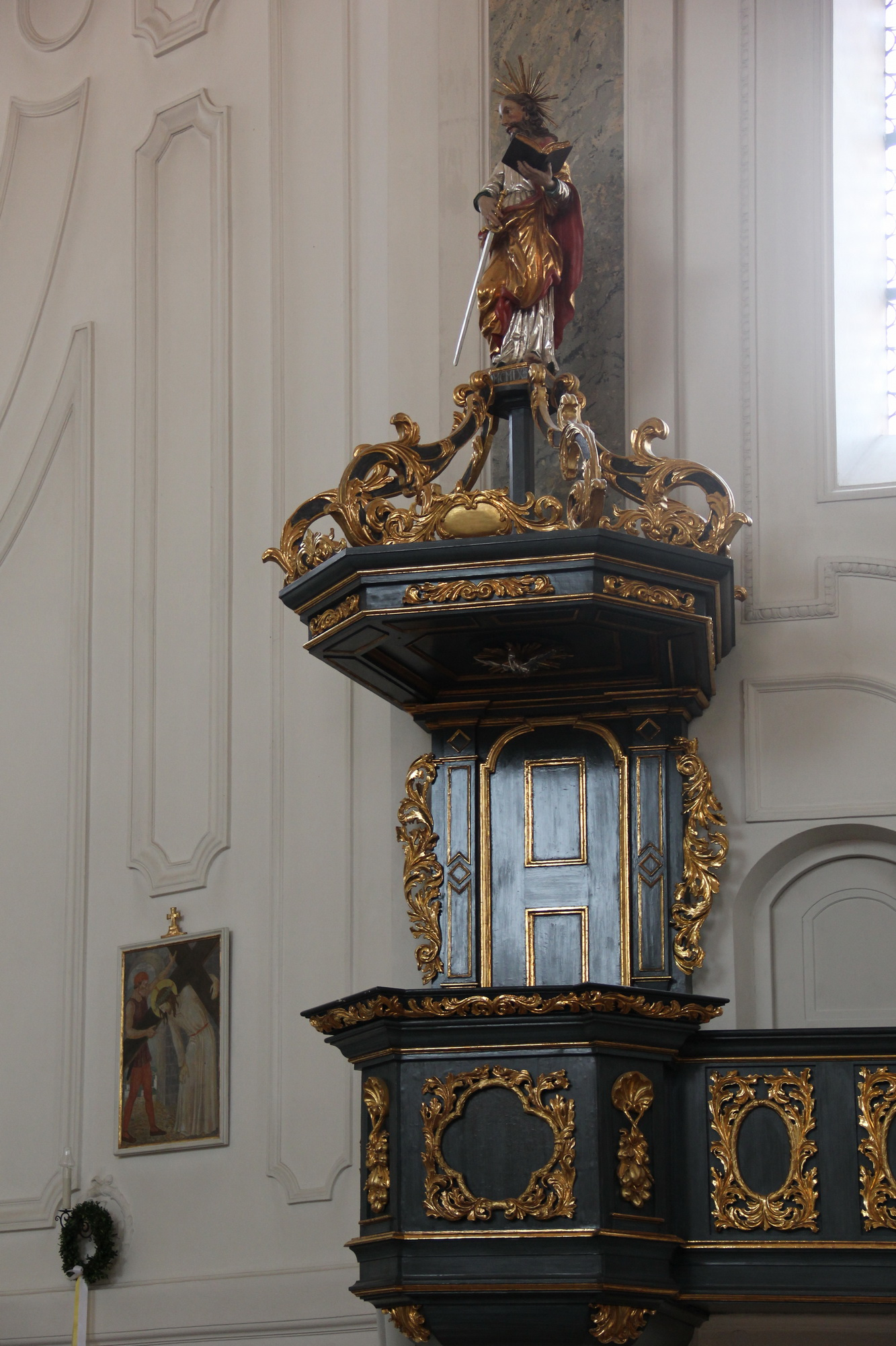 Saint Walburga Native nameSt. WalburgaLocationBeilngries, Upper Bavaria, GermanyCoordinates49° 02′ 05.64″ N, 11° 28′ 23.52″ E Authority control : Q2083220 institution QS:P195,Q2083220